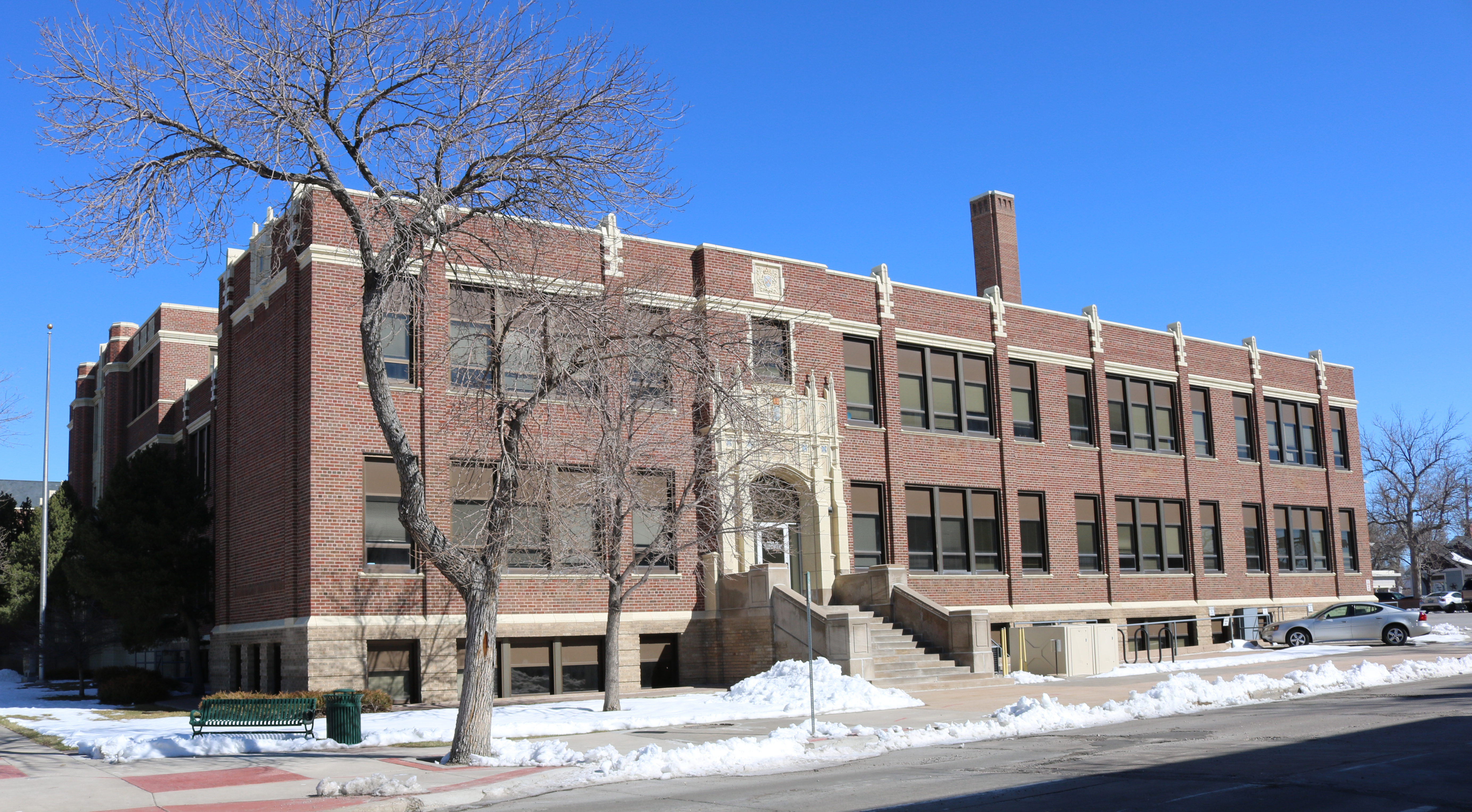 The Lulu McCormick Junior High School, located at 2001 Capitol Avenue in Cheyenne, Wyoming. Currently known as the Emerson Building, the property houses the offices of the Administrative Department of the Wyoming State Government.